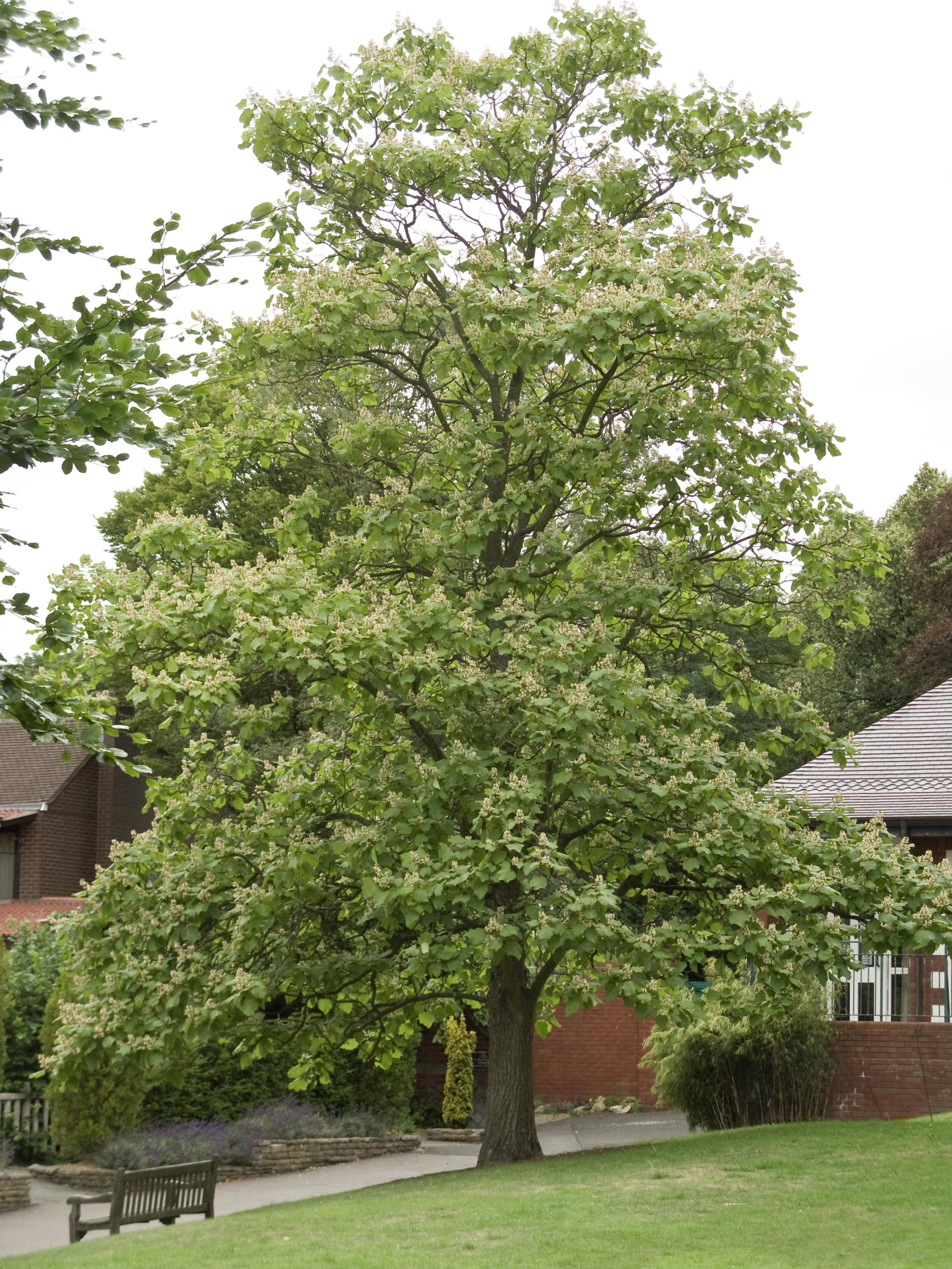 Catalpa ovata, growing at Birmingham Botanical Gardens & Glasshouses